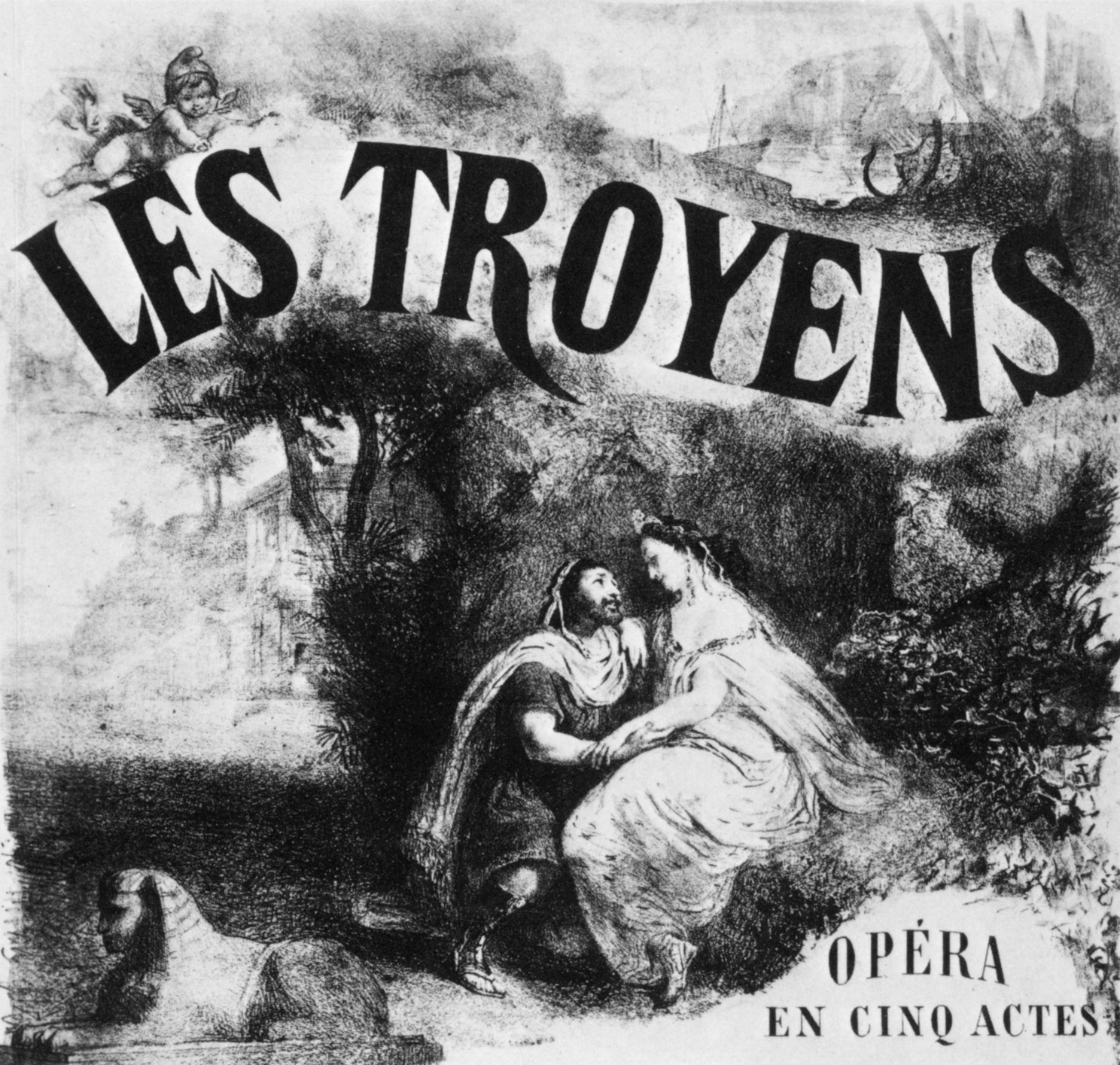 Poster for the premiere of Berlioz's Les Troyens at the Théâtre Lyrique on 4 November 1863.